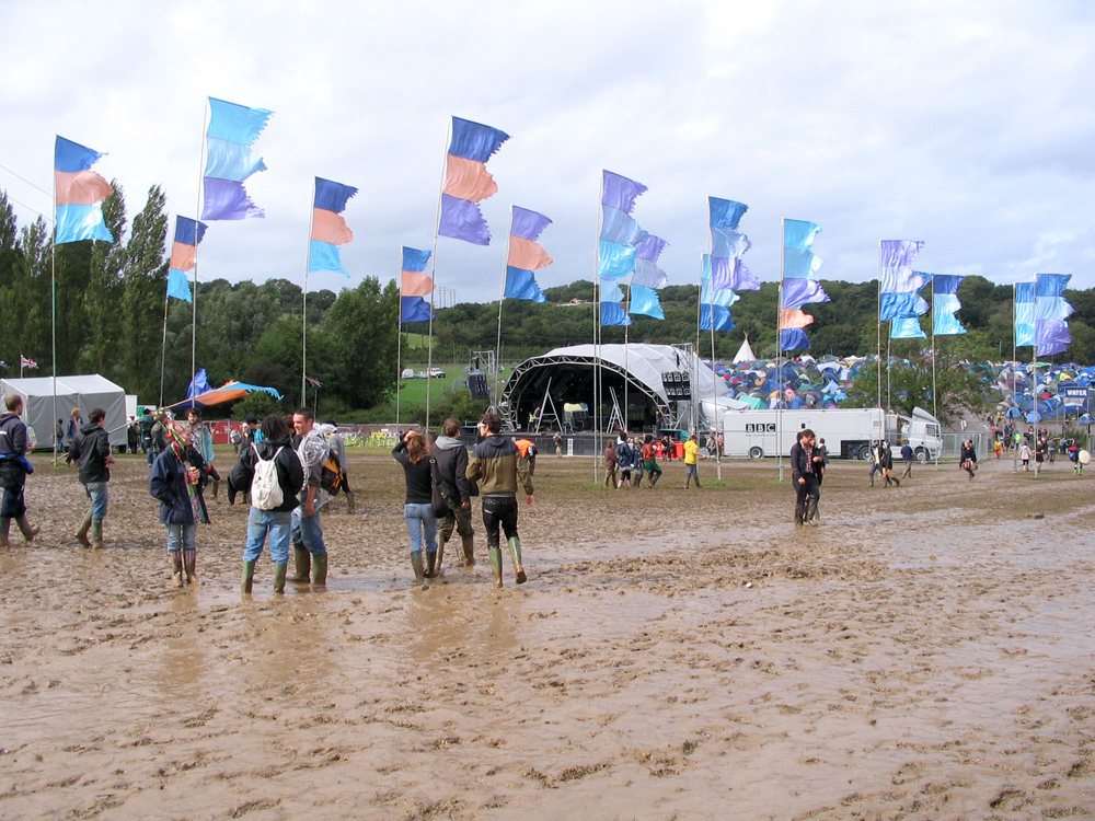 The BBC introducing stage for the 2008 Bestival event at Robin Hill, Isle of Wight. As can be seen in the photo, due to heavy rain on Friday and Saturday most of the ground was reduced to mud, meaning some parts of the site had to be closed.